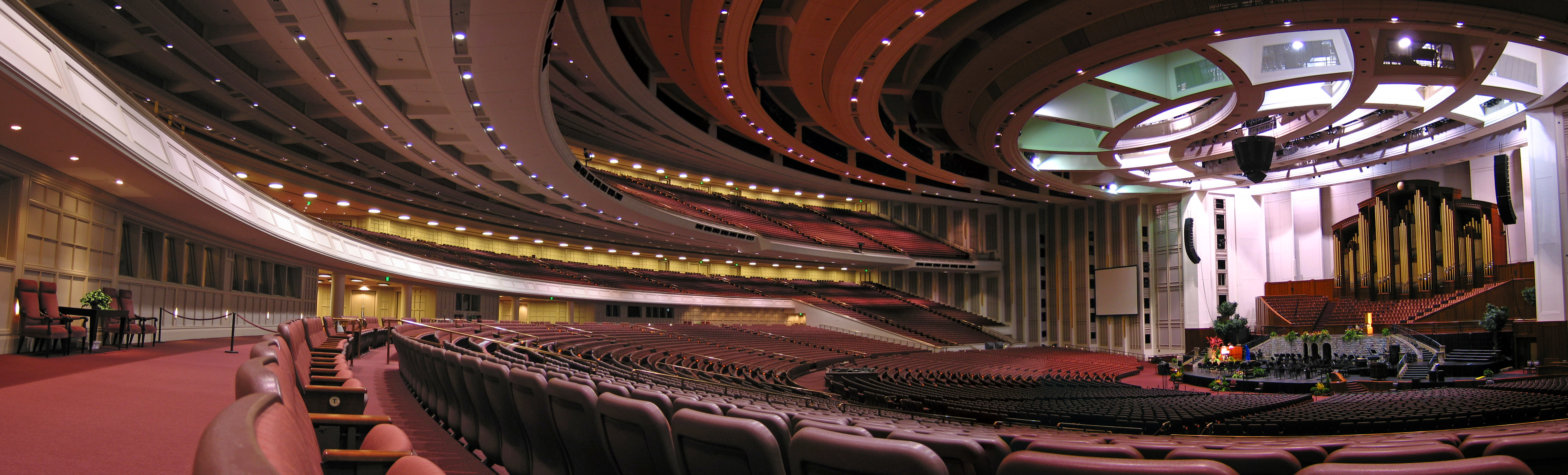 Interior of the auditorium within the Conference Center of The Church of Jesus Christ of Latter-day Saints in Salt Lake City, Utah, United States.